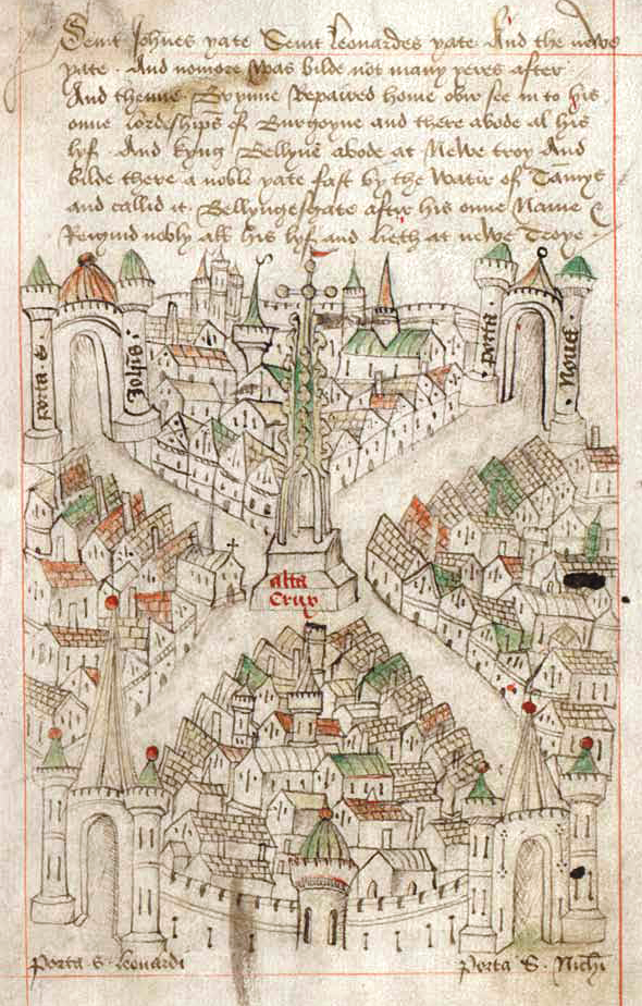 Map of Bristol from The Maire of Bristowe is Kalendar (dated circa 1479) by Robert Ricart, the common clerk of Bristol from 1478 to 1506. From the folio Ricart's Maiores Kalendar and The Lord Mayors Calendar whose physical copy is at Bristol Record Office, B Bond Warehouse, Smeaton Road, Bristol BS1 6XN. The document is reference number 04720 in the Office's catalogue.